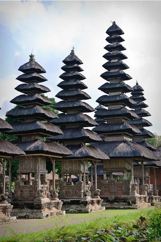 Pura Taman Ayun, Mengwi, Bali Location: Taman Ayun.